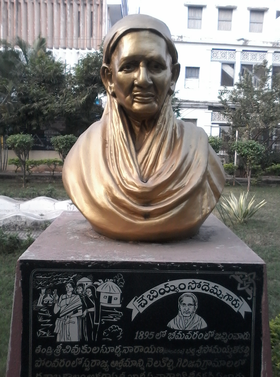 freedom fighter chebiyyam sodemma statue in rajahmundry